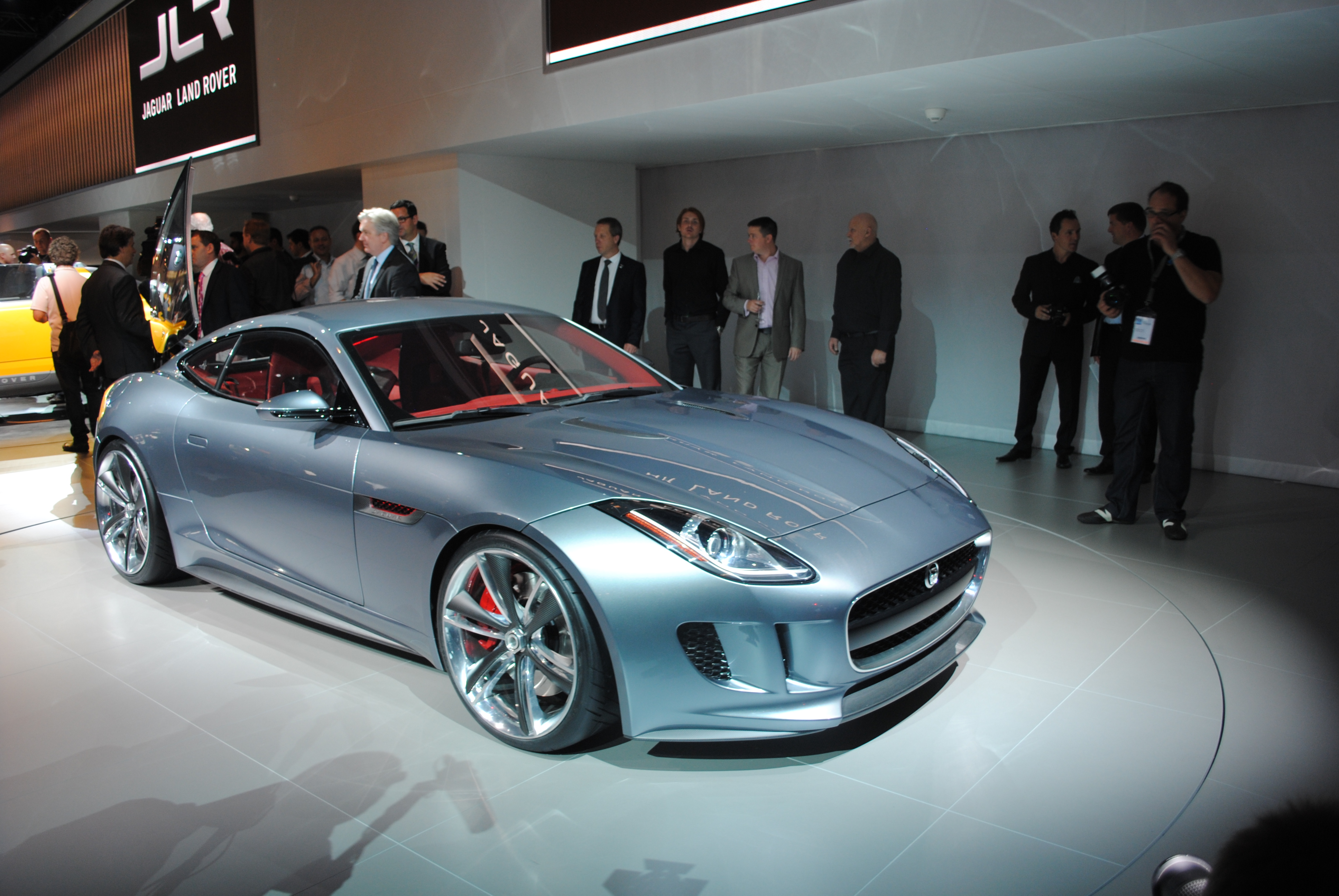 The Jaguar C-X16 at the Frankfurt Motor Show 2011. For more info, please check: and